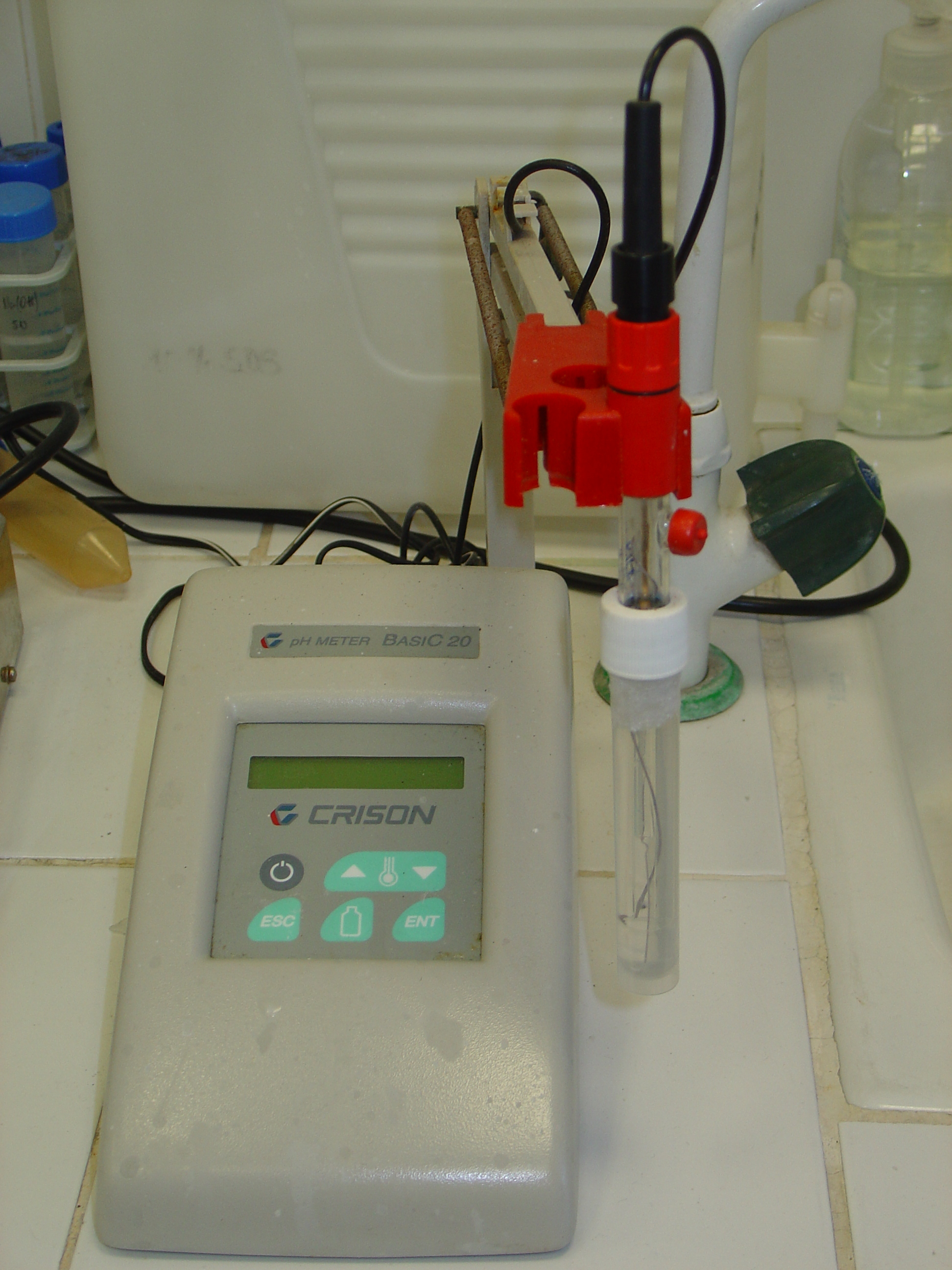 Basic laboratory pHmeter.